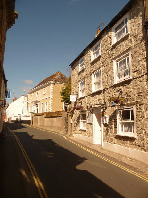 Lyme Regis: Coombe Street façades Looking northwest along Coombe Street, as its handsome frontages catch the sun on this very summery September lunchtime. The building in the distance houses the Dinosaurland museum, one of many fossil-related outlets in the town.